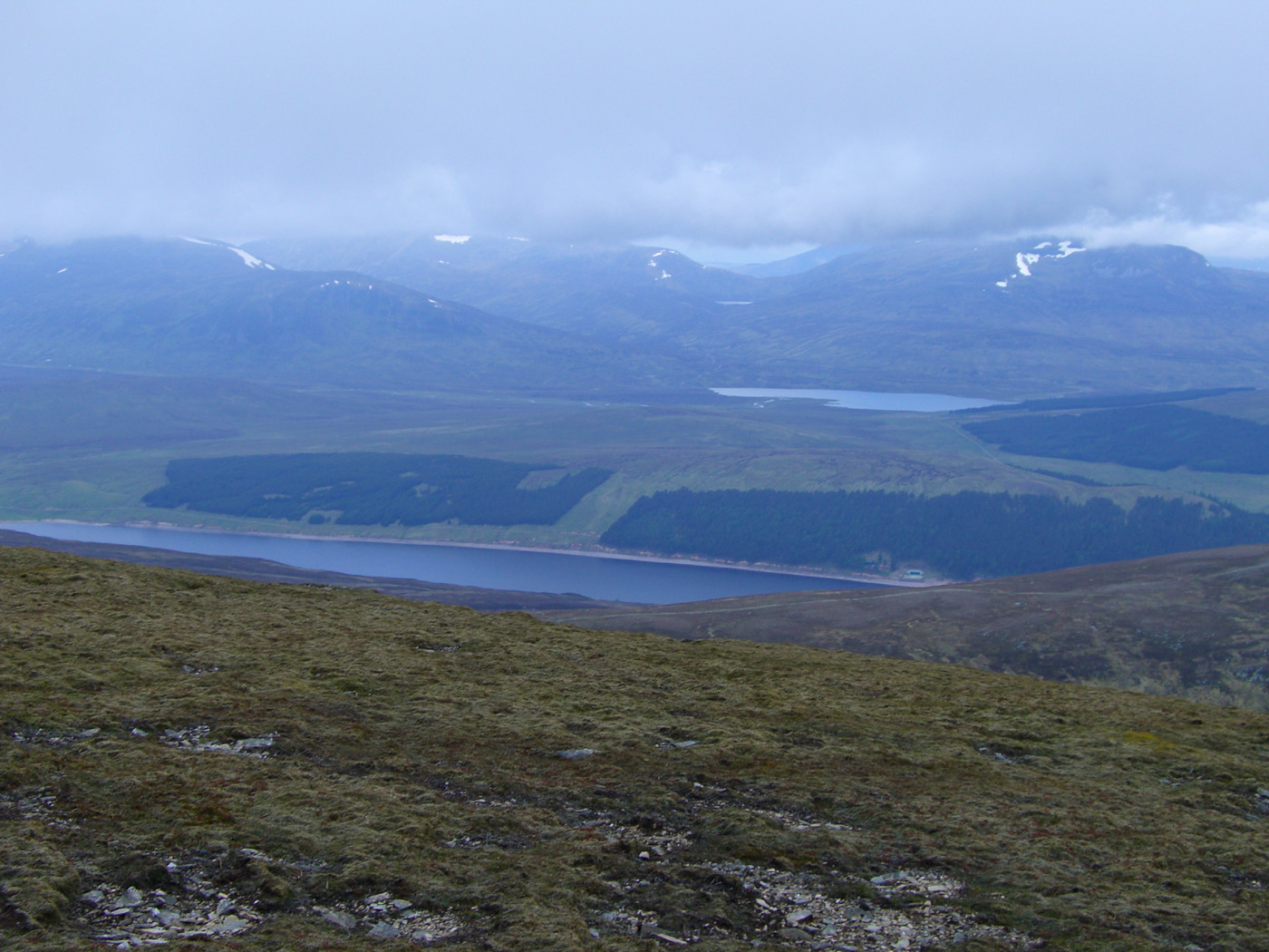 Looking west from the summit of A' Mharconaich to Lochs Ericht and Pattack